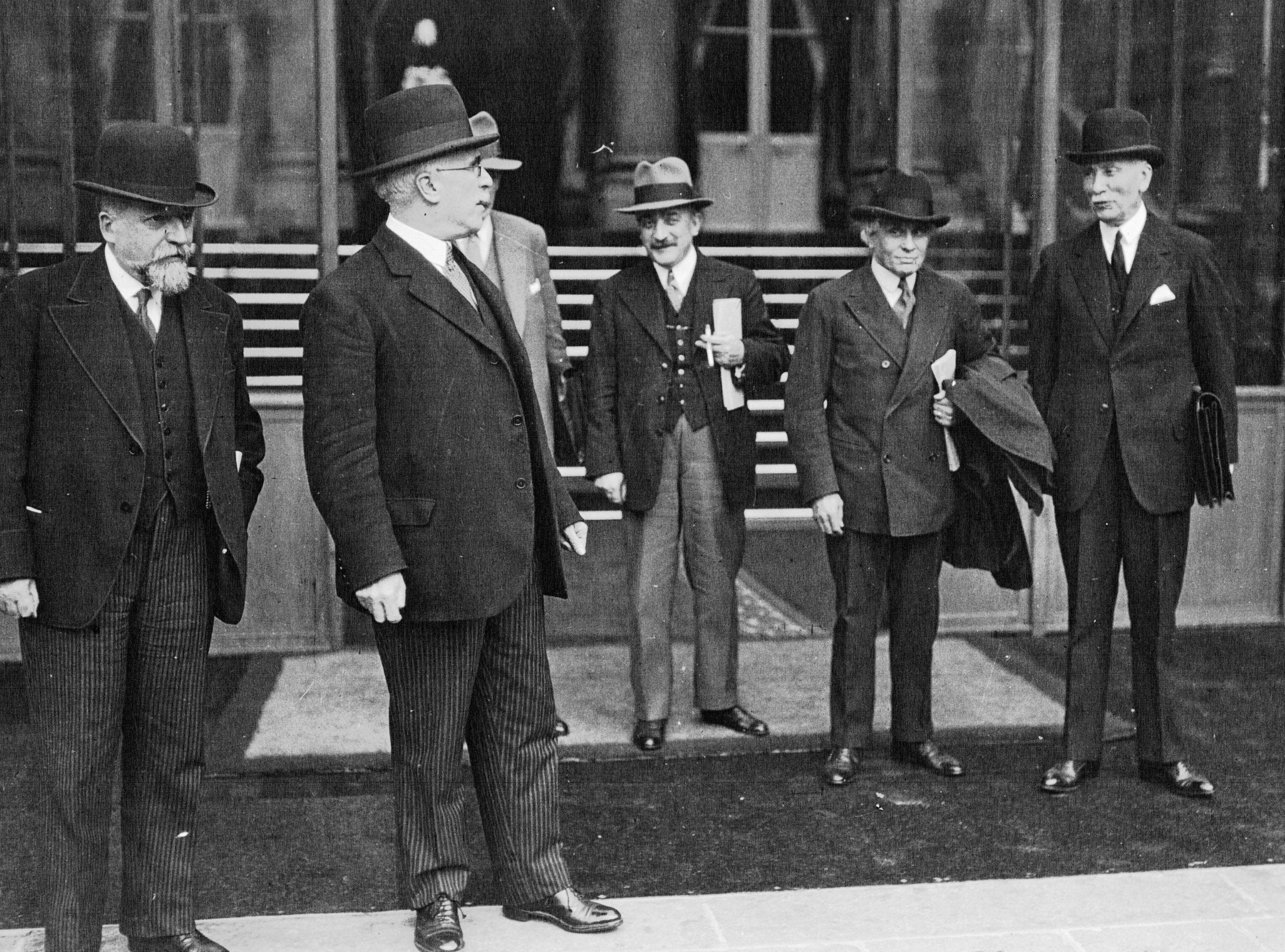 Left to right: French politicians Jean Durand, Justin Godart, Henri Queuille, Joseph Paul-Boncour, René Renoult.